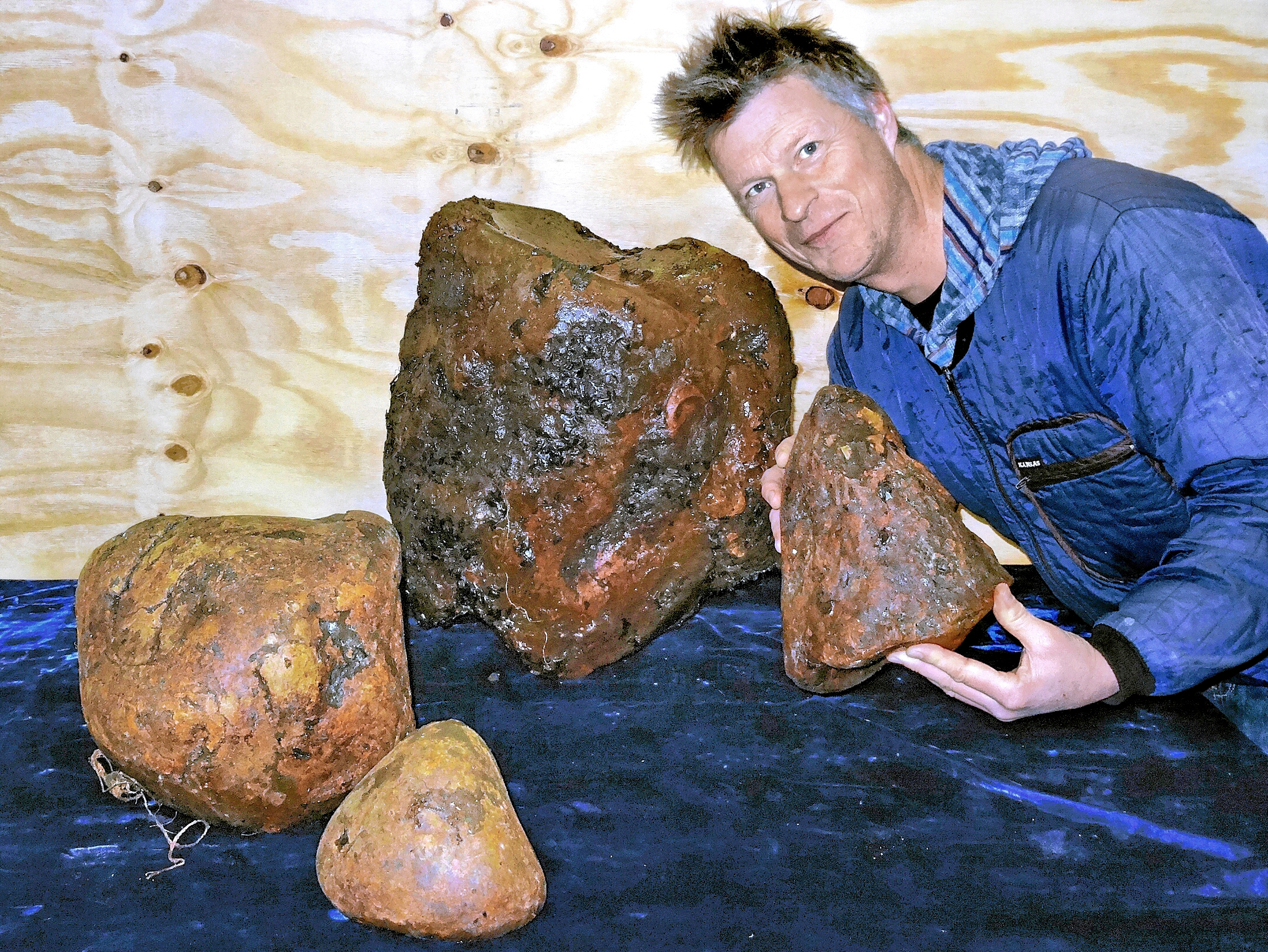 Ambergris of a Sperm Whale (2012 in the Natural History Museum Ecomare)